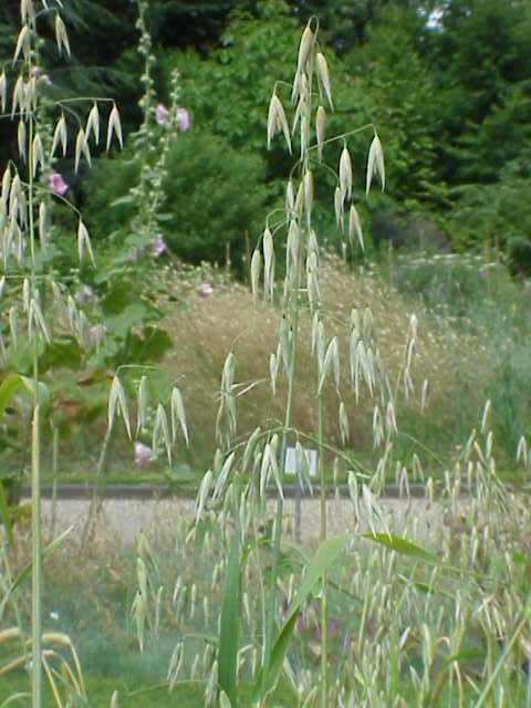 Avena fatua, Poaceae, Image no. 2